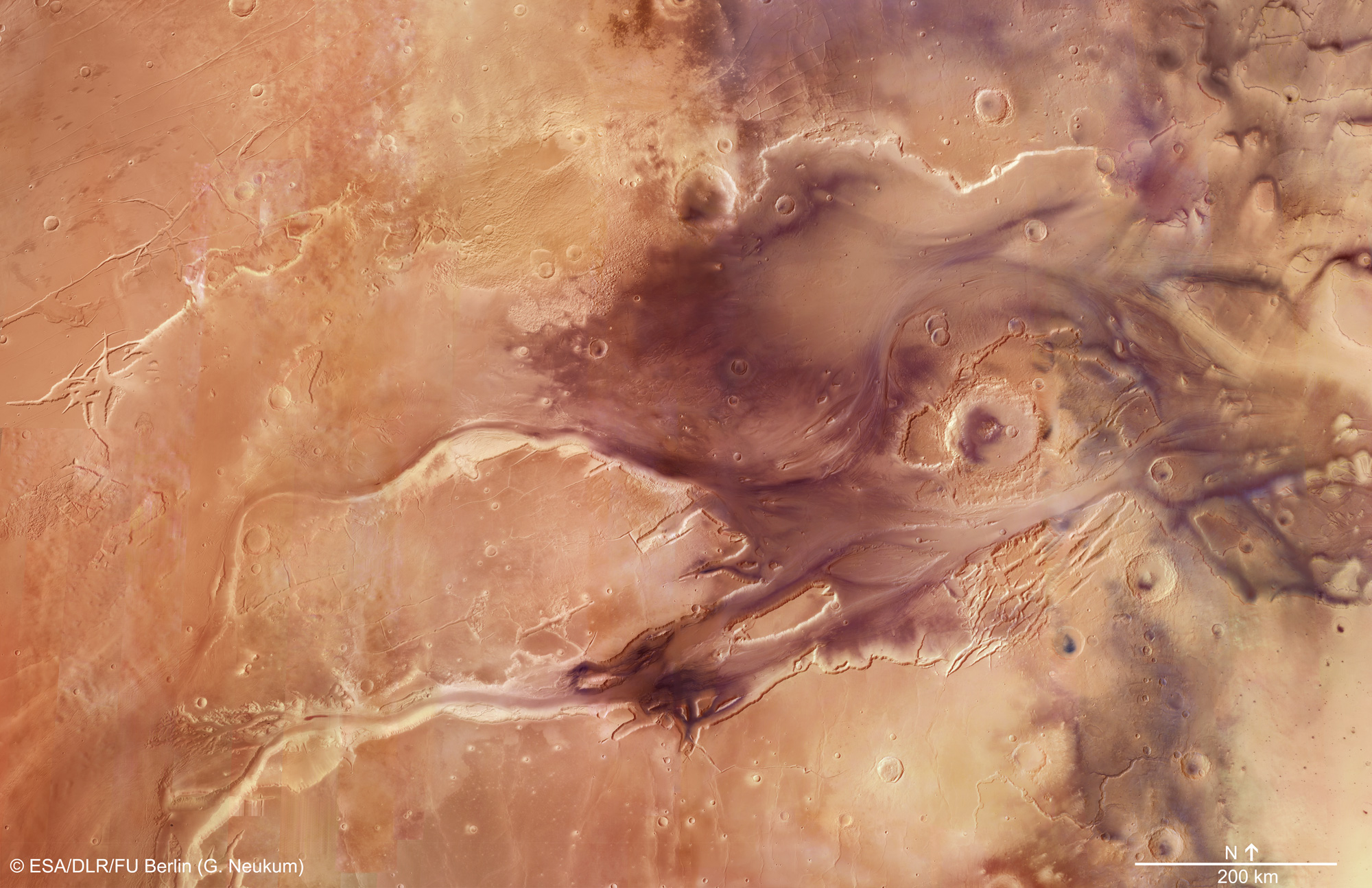 This mosaic, which features the spectacular Kasei Valles, comprises 67 images taken with the High Resolution Stereo Camera on ESA’s Mars Express. The mosaic spans 987 km north–south (19–36°N) and 1550 km east–west (280–310°E). Credit: ESA/DLR/FU Berlin (G. Neukum), CC BY-SA 3.0 IGO Copyright Notice: This work is licenced under the Creative Commons Attribution-ShareAlike 3.0 IGO (CC BY-SA 3.0 IGO) licence. The user is allowed to reproduce, distribute, adapt, translate and publicly perform this publication, without explicit permission, provided that the content is accompanied by an acknowledgement that the source is credited as 'ESA/DLR/FU Berlin’, a direct link to the licence text is provided and that it is clearly indicated if changes were made to the original content. Adaptation/translation/derivatives must be distributed under the same licence terms as this publication. To view a copy of this license, please visit